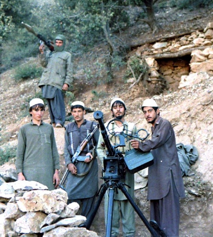 Afghanistan Kunar October 1987: Jamiat-e Islami group shelter and "Dashaka" .50 cal. machine gun position in Shultan Valley.